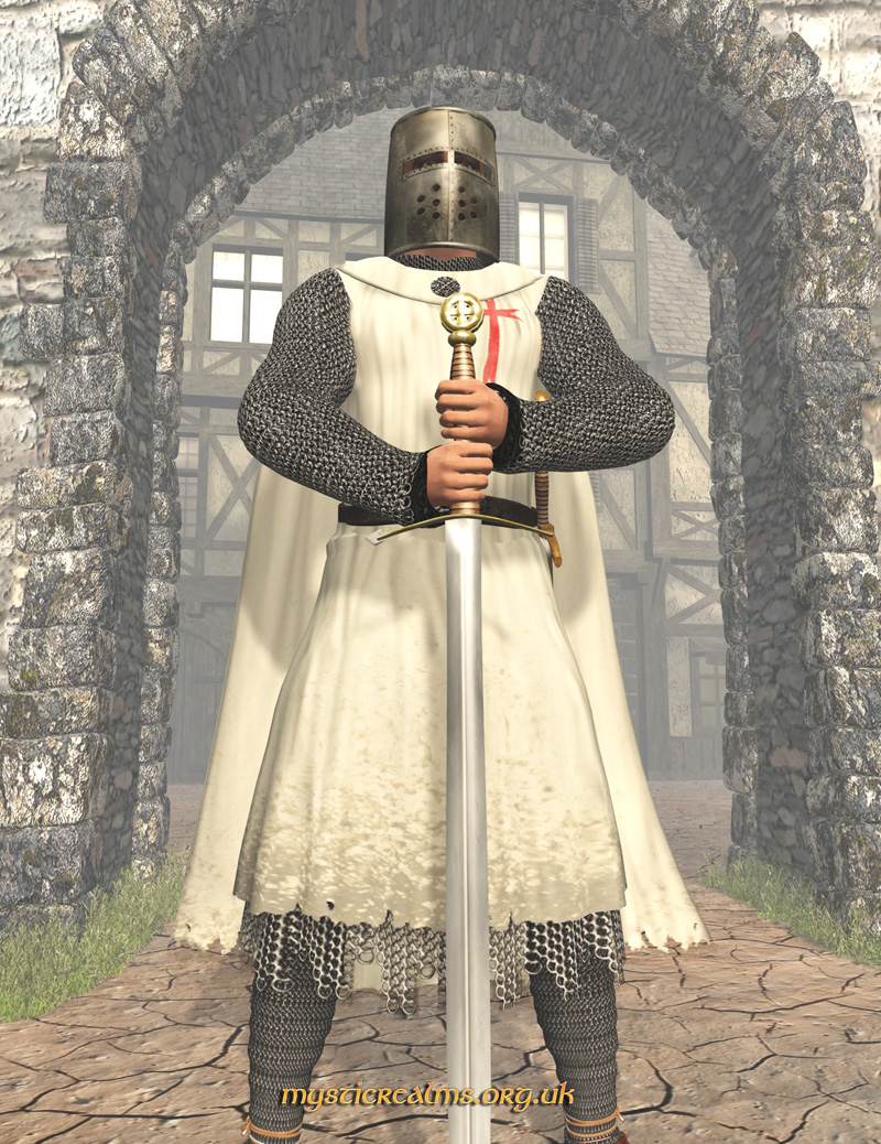 An artistic impression of a "Knight Templar". Marked "©Les Still", but blatantly uploaded by User:Vahakn under the title "Armenians in Cyprus" claiming to own copyright without even bothering to remove the " .uk" watermark.